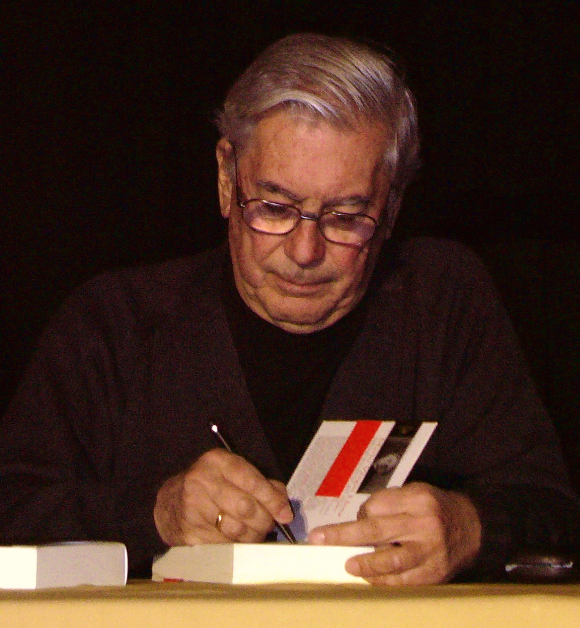 Peruvian-Spanish writer Mario Vargas Llosa